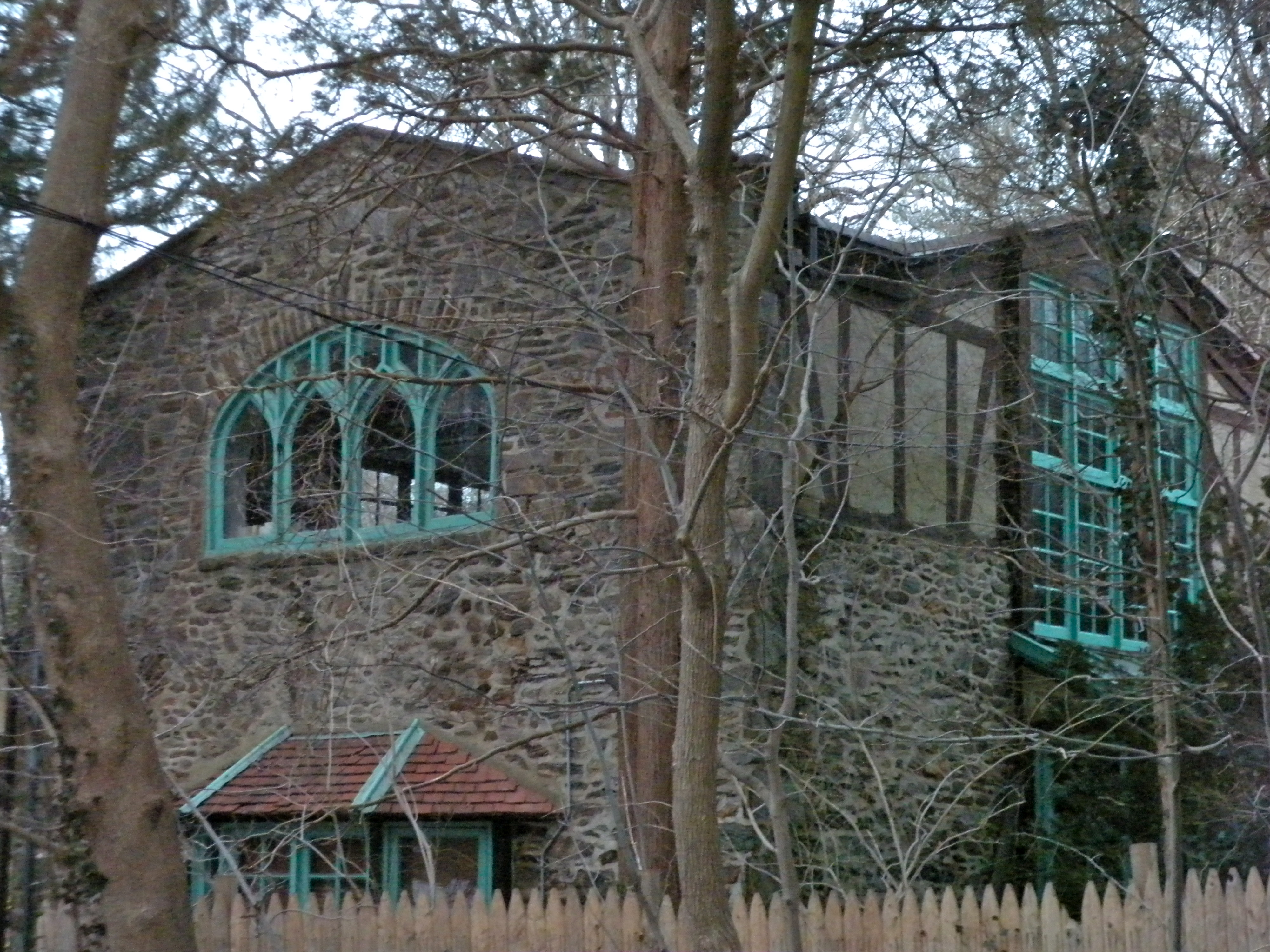 Thunderbird Lodge in Rose Valley, Pennsylvania, redesigned and rebuilt by Will Price from an old barn. On the NRHP